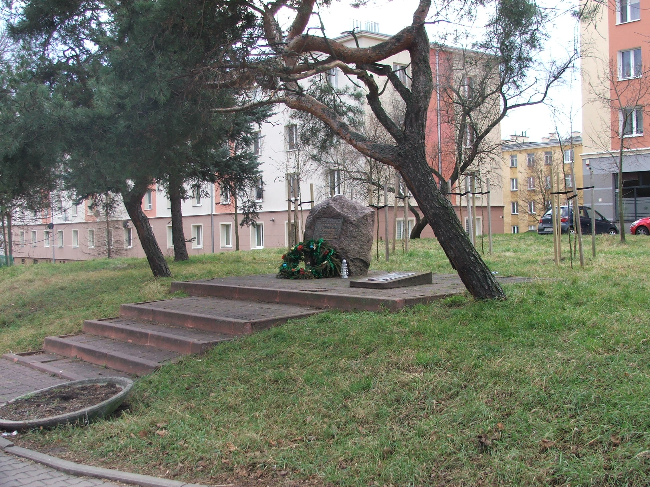 The memorial to Polish victims of mass execution performed by Nazi Germans on 15th Oct. 1942.